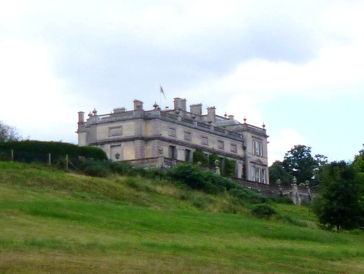 C18 country house, seat of the Earls of Normanton